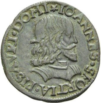 Coin with Giovanni Sforza portrait